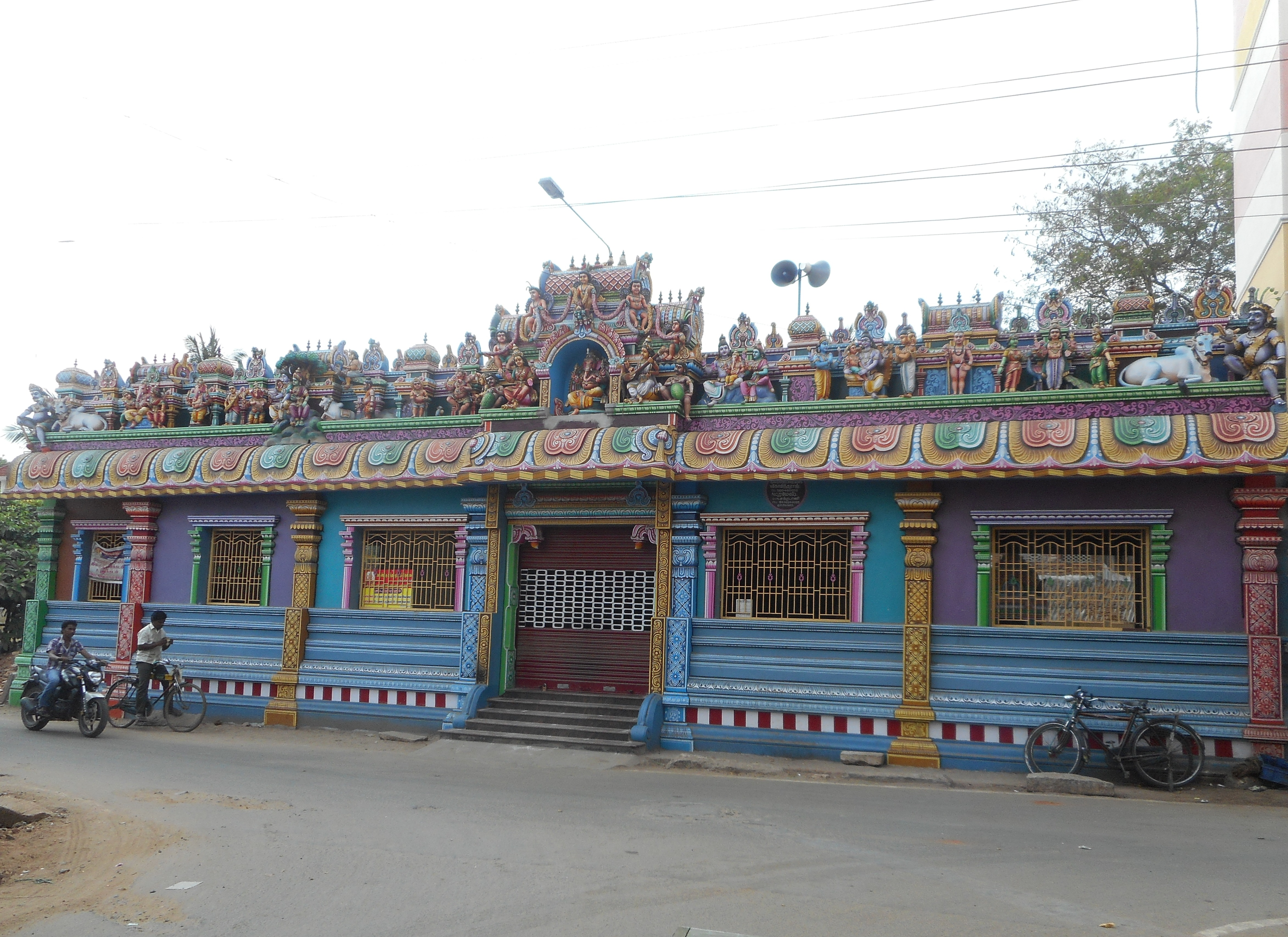 Kumbakonam Sundaramurtivinayakar temple கும்பகோணம் சுந்தரமூர்த்தி விநாயகர் கோயில்